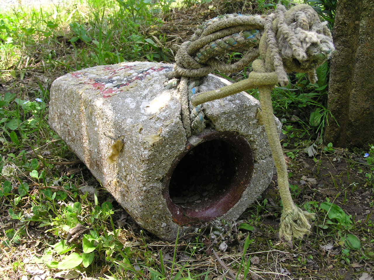 蛸壺（明石） - This jar is a octopus trap used for fishing in Japan. The photo was taken in Akashi, Hyogo.